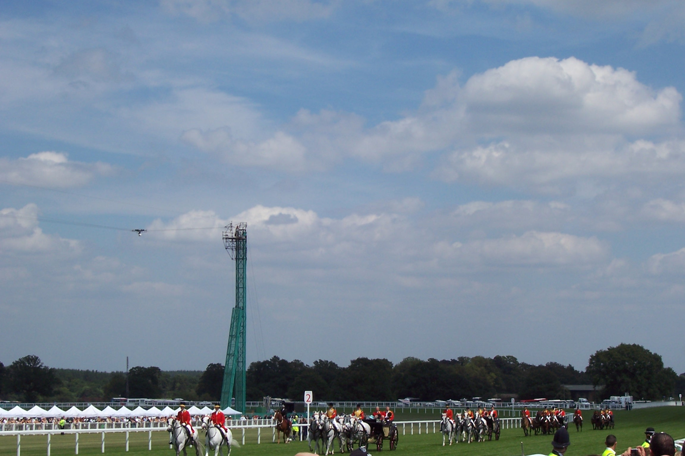 Royal Ascot 2006 - Parade of the Royal Family